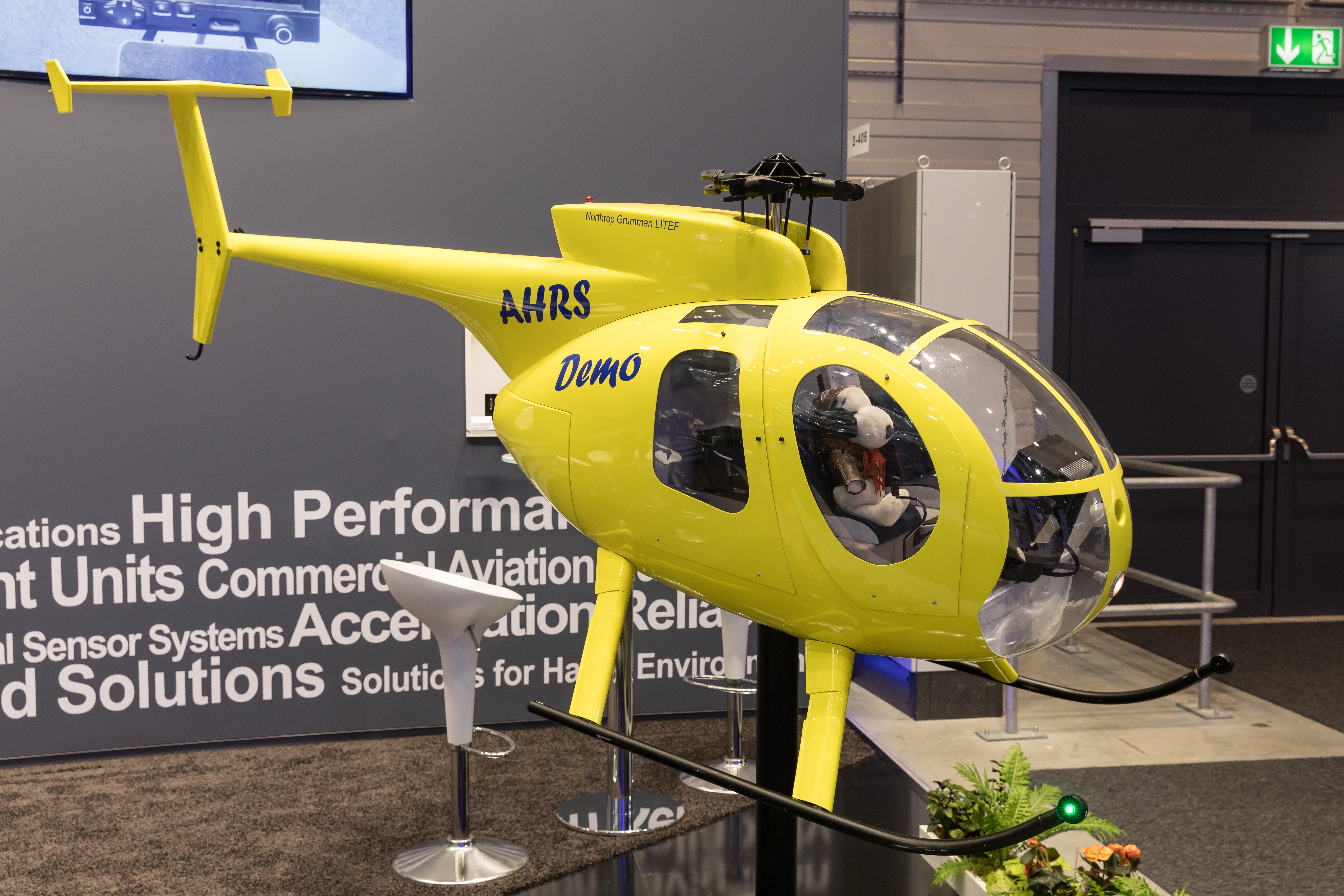 Scale model of a Northrop Grumman LITEF at ILA 2018